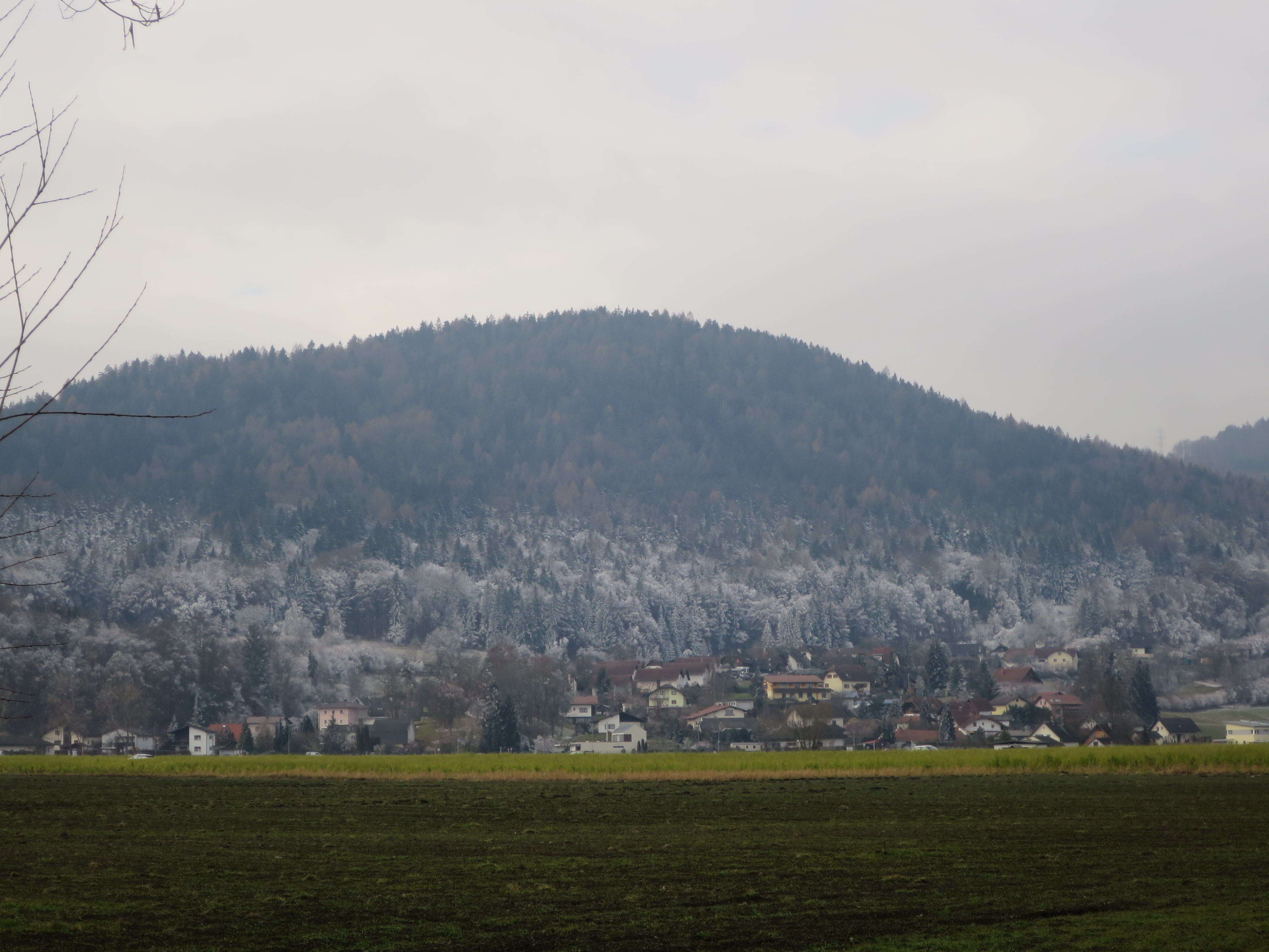 Klagenfurter Becken in December 2015: On half height of mount Goritschnigkogels there is a distinct inverted margin of the hoarfrost due to longduring temperatue inversion.Possition: Viktring, at the mouth of Viktringer Baches into river Setla